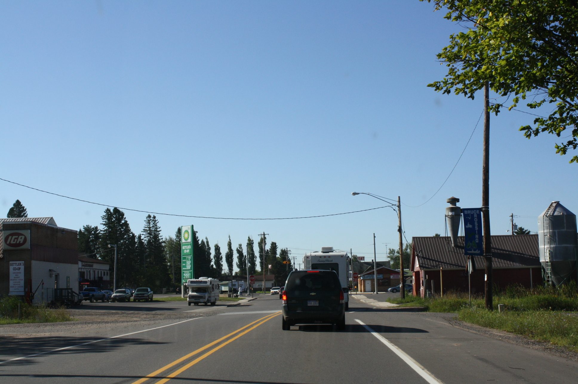 Looking south at downtown Bruce Crossing, Michigan on U.S. Route 45.